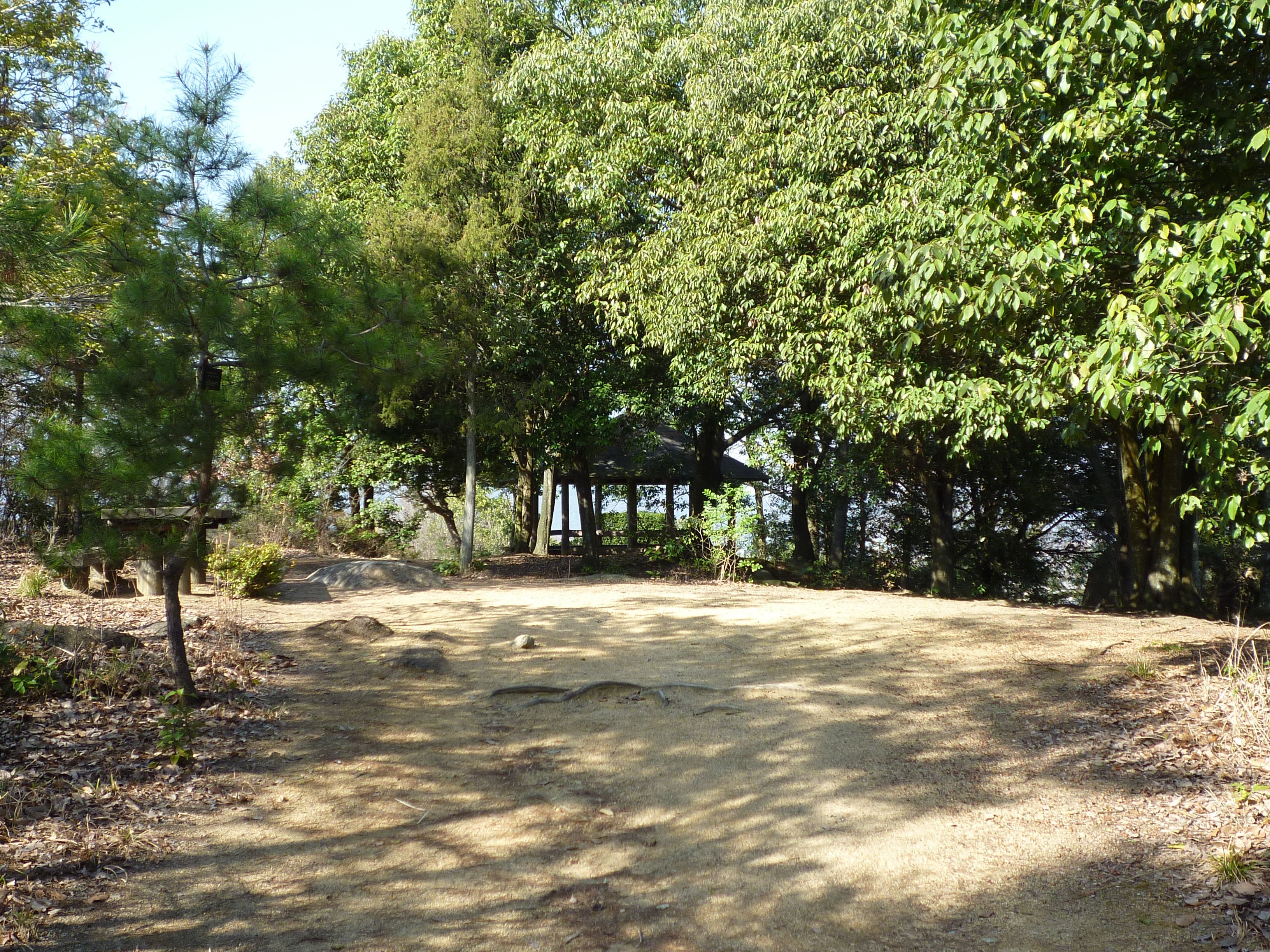 Central part of Myozenji castle (Naka-ku, Okayama City, Okayama Pref, JPN). This castle was built by Ukita Naoie, one of Japanese civil wars general, at 1566. The next year, The Battle of Myozenji castle was broken out and Naoie beated Mimura Motochika.